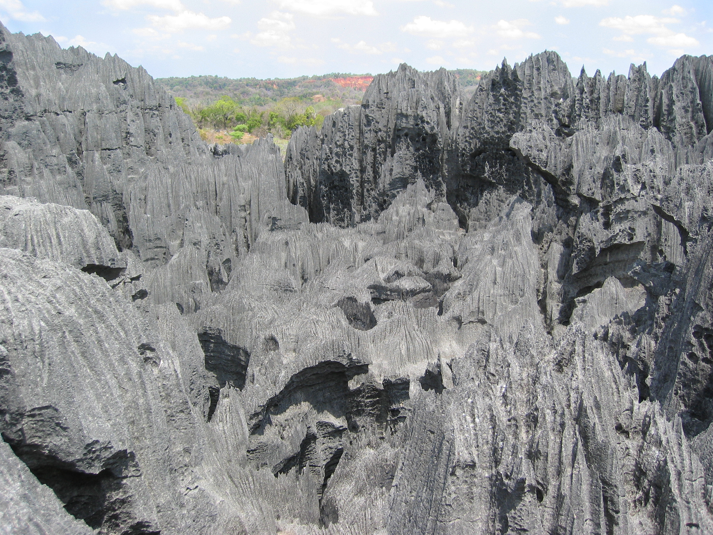 Tsingy de Bemaraha Strict Nature Reserve, Madagascar Taken 17 October 2003